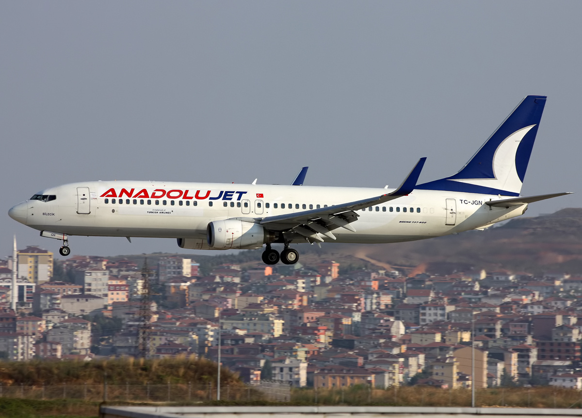 AnadoluJet Boeing 737-800 landing at Sabiha Gökçen International Airport